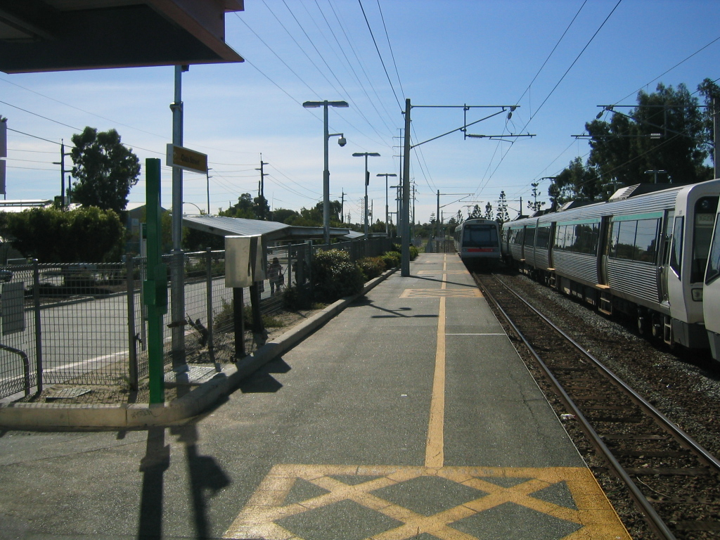 Transperth Oats Street Train Station